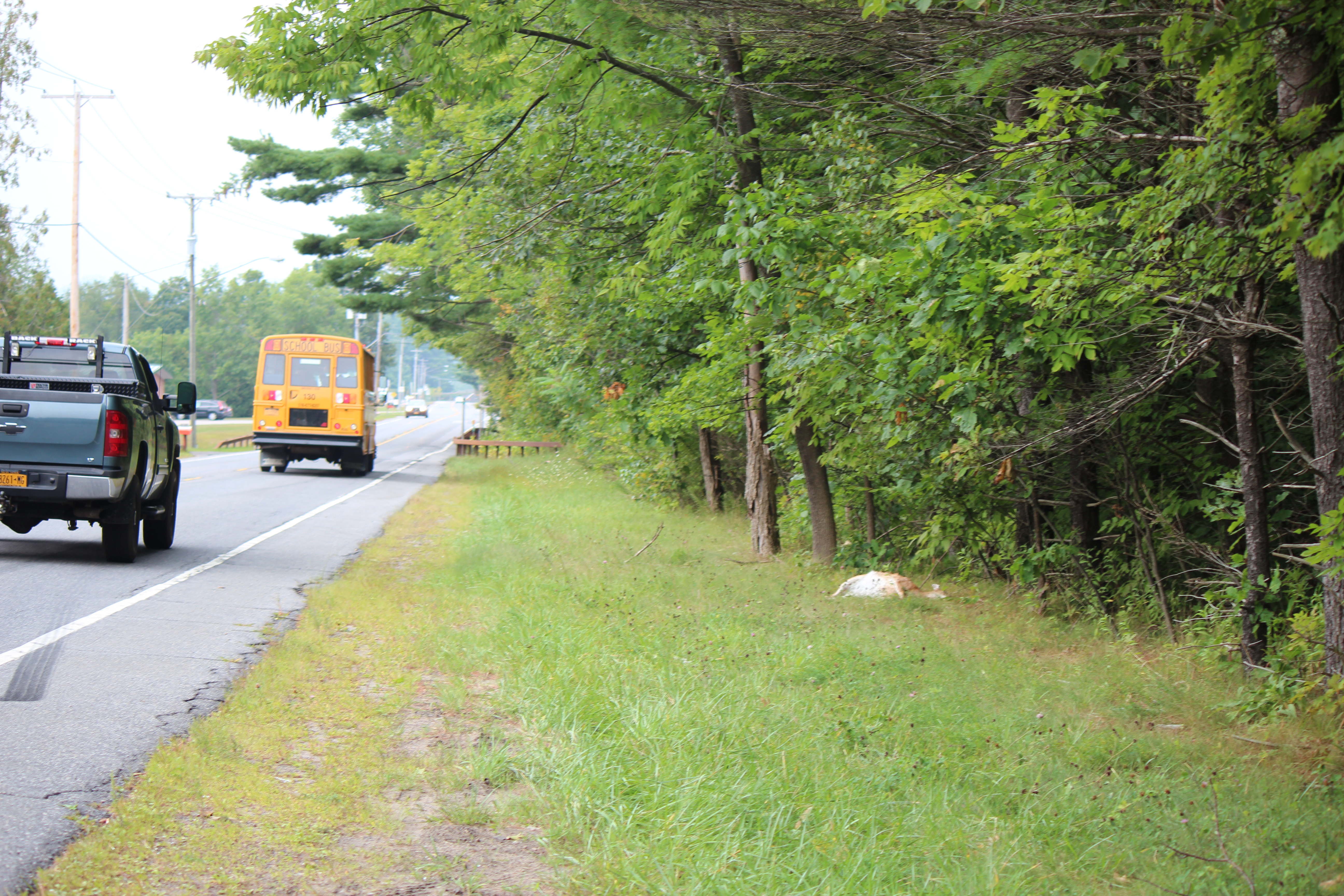 1st photo in series of 6 illustrating our acceptance of the impact of human infrastructure on the natural habitat. A closer look at what we pass by each day without looking directly at, so as to pay respect for life and the natural cycle which befalls us all.